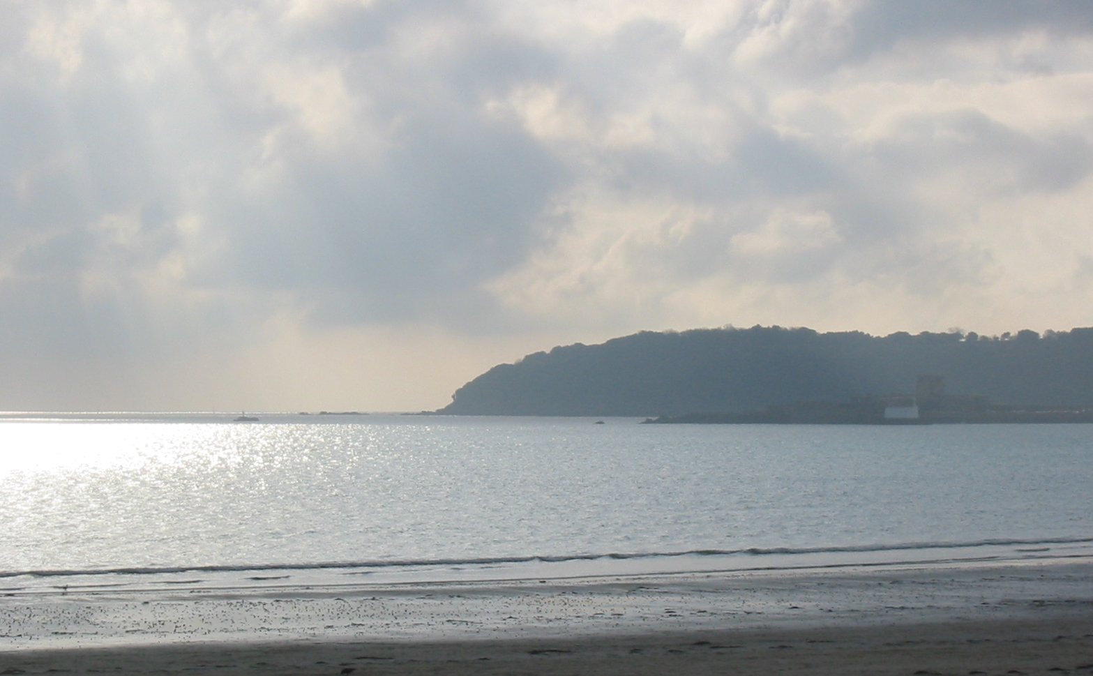 View across St. Aubin's Bay, Jersey, towards Noirmont with St. Aubin's Fort lying in the bay.